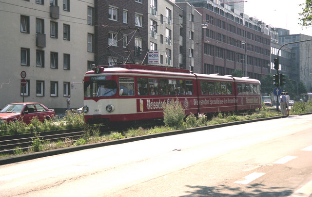 Tram on Route 7 near Heumarkt